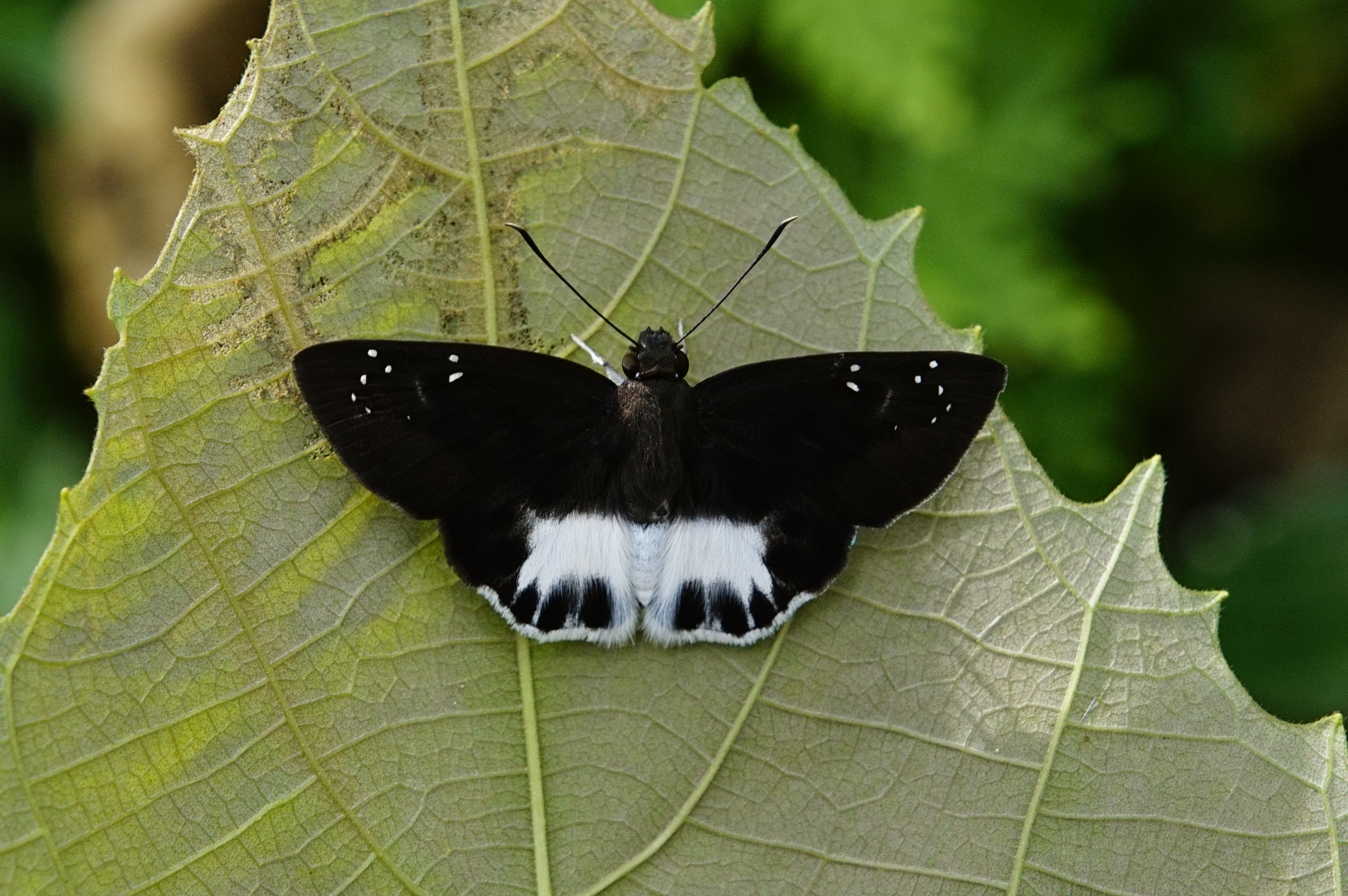 Tagiades litigiosa